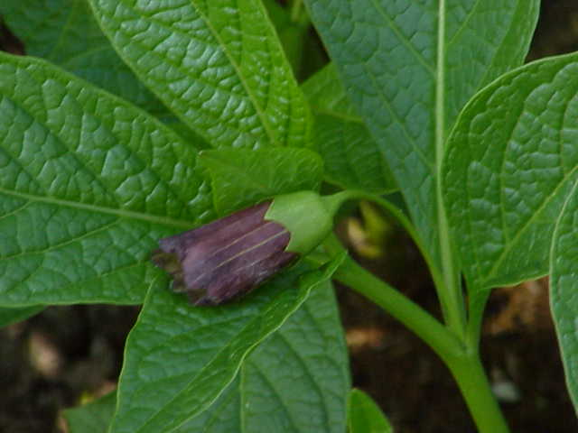 Species: Scopolia carniolica Family: Solanaceae Image No. 3